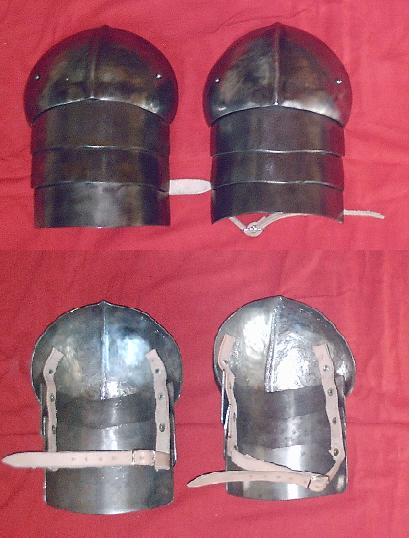 pauldron